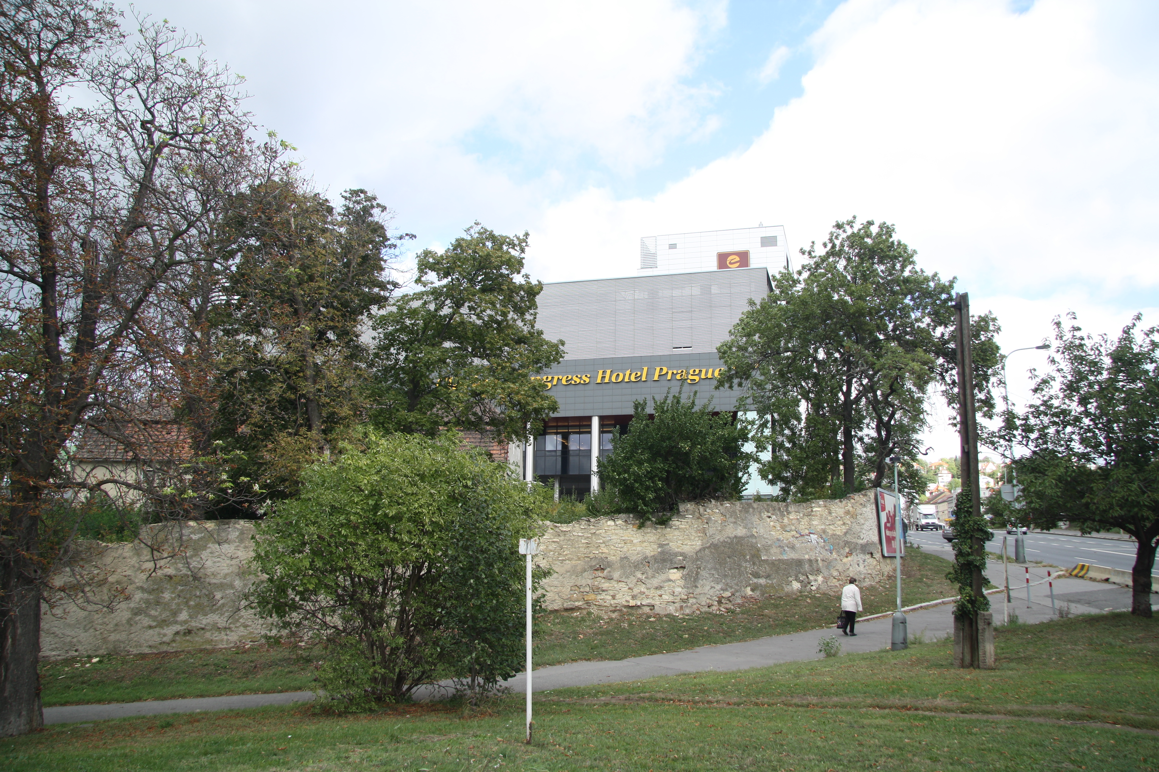 Place of Vysočany castle in Prague-Vysočany, Prague.